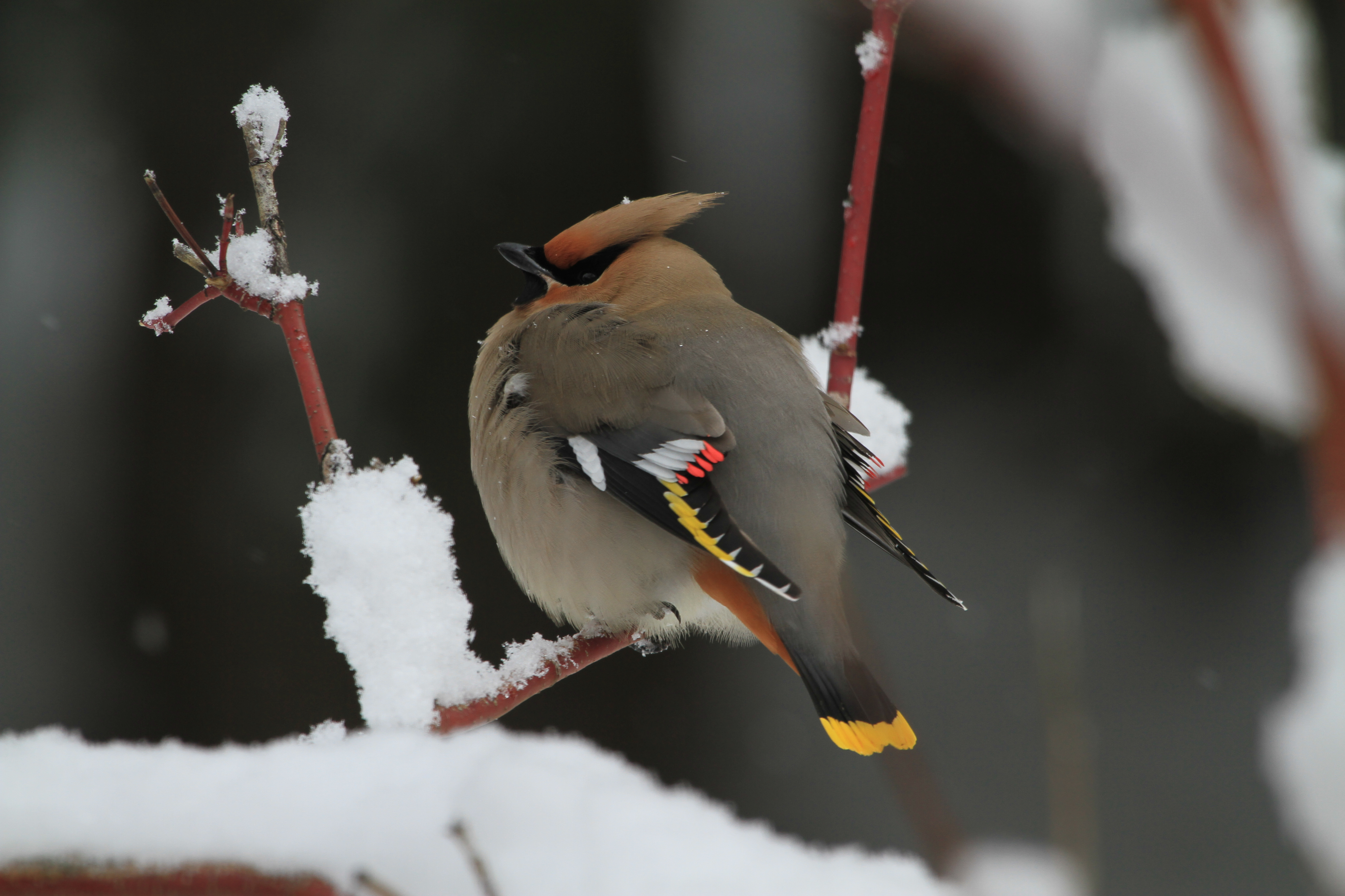 A Bohemian Waxwing (Bombycilla garrulus) puffs its feathers on this cold and snowy day in April. Photo: David Restivo, NPS